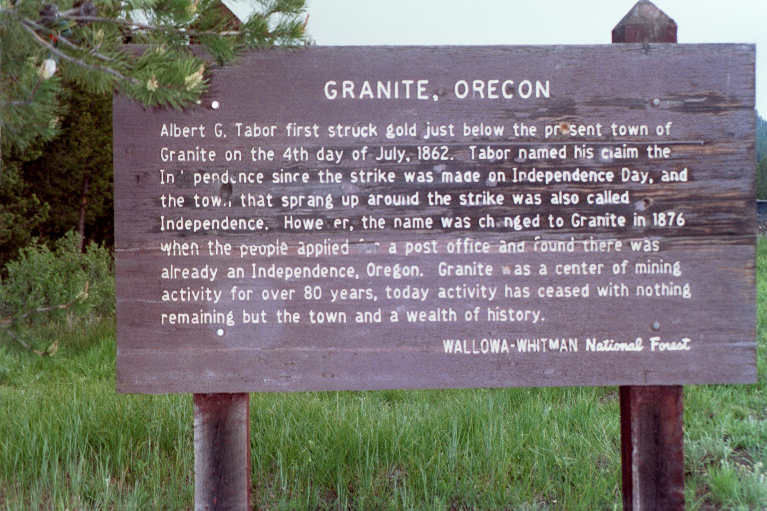 sign at Granite Oregon about its founding